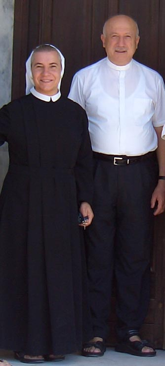 Bishop Hil Kabashi, Apostolic Administrator in South Albania with his sister Marta Kabashi Bischof Hil Kabashi, Apostolischer Administrator in Südalbanien mit seiner Schwester Marta Kabashi Episcopus Hil Kabashi, Administrator Apostolicus Administraturae Albania Meridionalis atque soror sua Marta Kabashi Aufnahme August 2006 in Fier (Albanien)